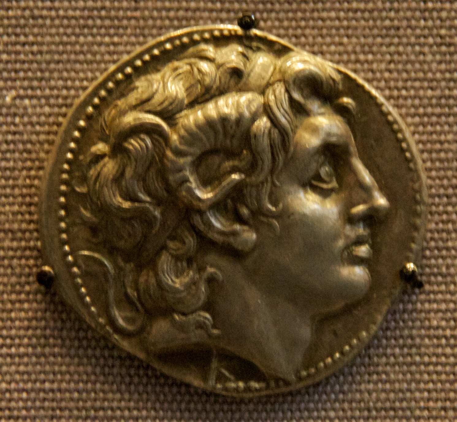 Tetradrachm of Lysimachos. The head of Alexander is featured wearing royal and divine symbols: the diadem and the horns of Zeus Ammon. Coin with head of Alexander. Object 31 of 100. About 305-281BC. Lampsacus (modern Lapseki), Turkey, Silver. 1919.0820.1